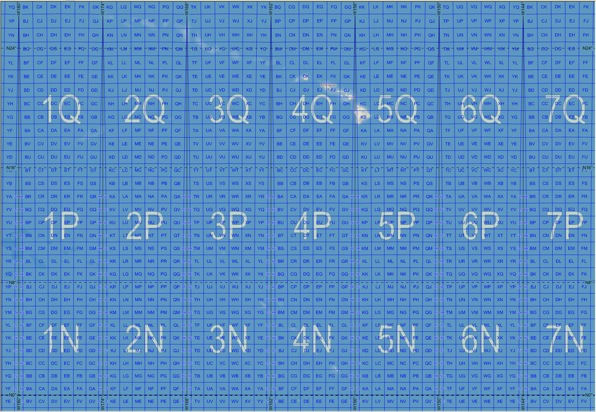 Map of the Military Grid Reference System (MGRS) around its origin in the Pacific, with the AA lettering scheme for the 100 km squares. This scheme is used for WGS 84 and some other modern geodetic datums, while the alternative AL lettering scheme is used for some older geodetic datums.